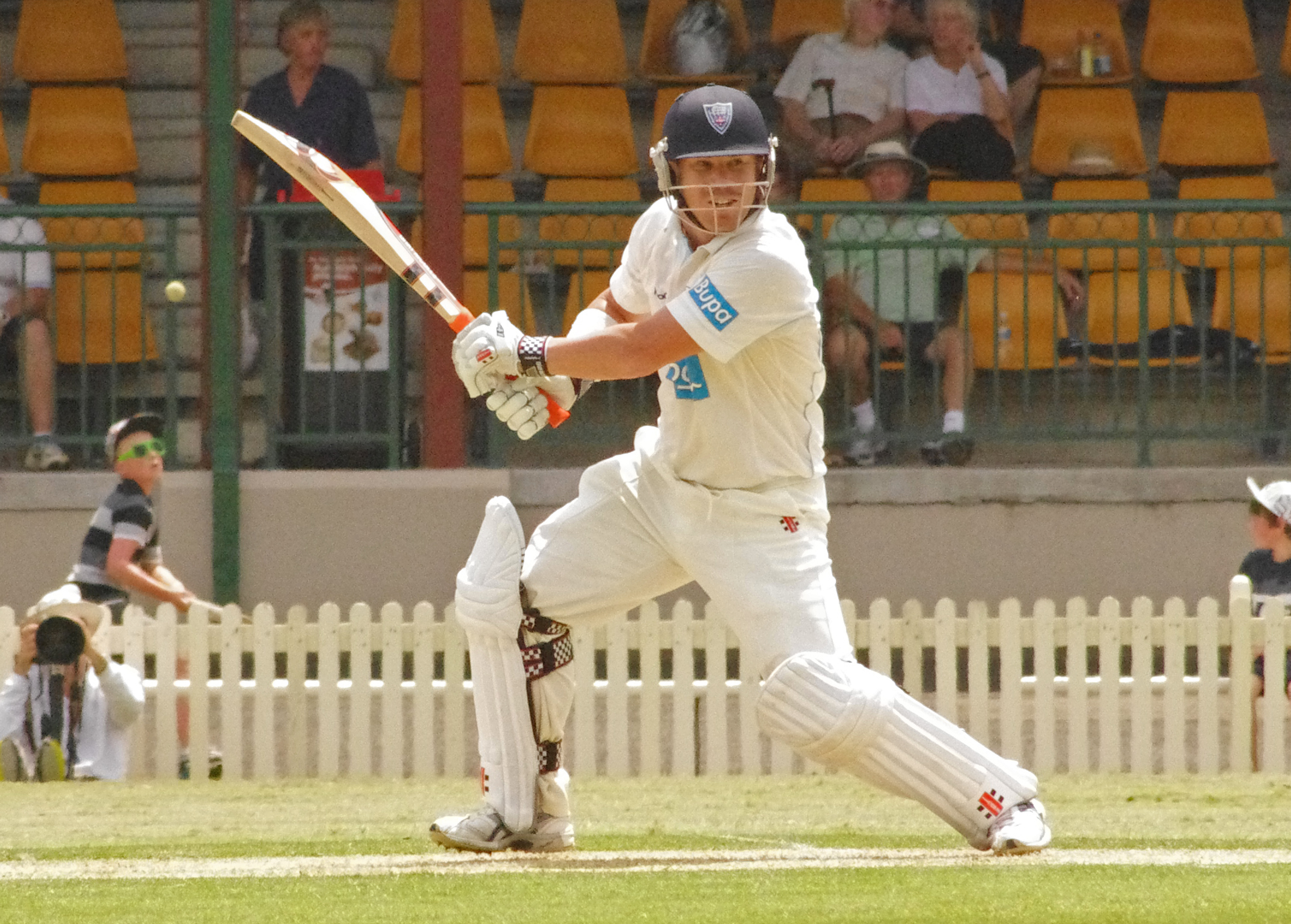 Australian cricketer David Warner batting for New South Wales Blues.